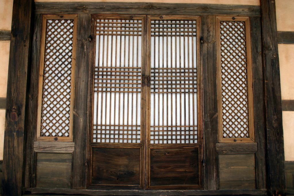 A scenry of Andong City, Gyeongsangbuk-do, South Korea